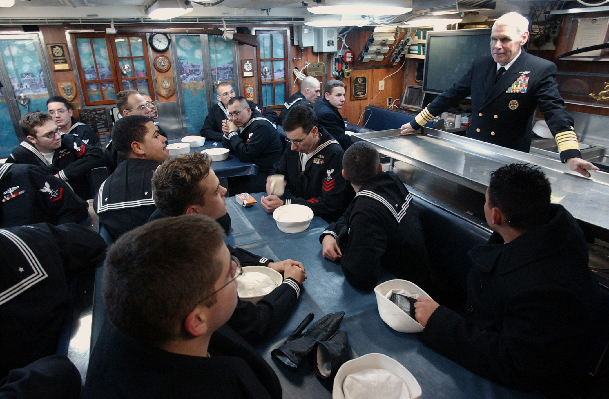 Groton Conn. (Dec. 5, 2003) -- Adm. William J. Fallon, U.S. Fleet Forces Commander, talks with the crew of the Los Angeles Class submarine USS Springfield (SSN 761). Adm. Fallon toured the fast-attack submarine after presenting the Arleigh Burke Award to Springfield’s crew. The Arleigh Burke Award is named for one of the Navy’s most celebrated officers. Adm. Burke served as a Destroyer Squadron Combat Commander during WWII and Chief of Naval Operations from 1955 to 1961. The award is given annually to the most improved Battle-Efficient Submarine, Ship, or Aircraft squadron from the Atlantic and Pacific Fleet. Her superior performance across the board during preparations for the execution of an arduous Mediterranean Sea/Indian Ocean deployment made the ship a vital contributor to the security of the United States. She was recognized by both the Sixth and Seventh Fleets for her consistently outstanding performance meeting every operational challenge with a high level of enthusiasm and impressive professionalism. Springfield was selected to participate in a bilateral exercise with an allied submarine, was recognized by the Harry S. Truman (CVN 75) Battle Group for superb support during COMPUTEX, and had the highest rated quality assurance program of all Groton based submarines. U.S. Navy photo. (RELEASED)